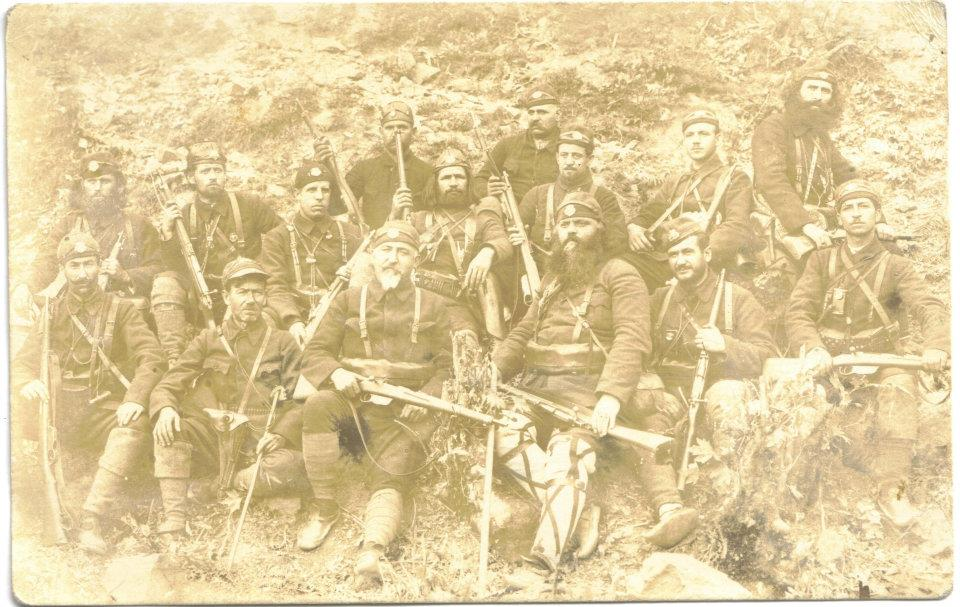 Bulgarian revolutionary/ies